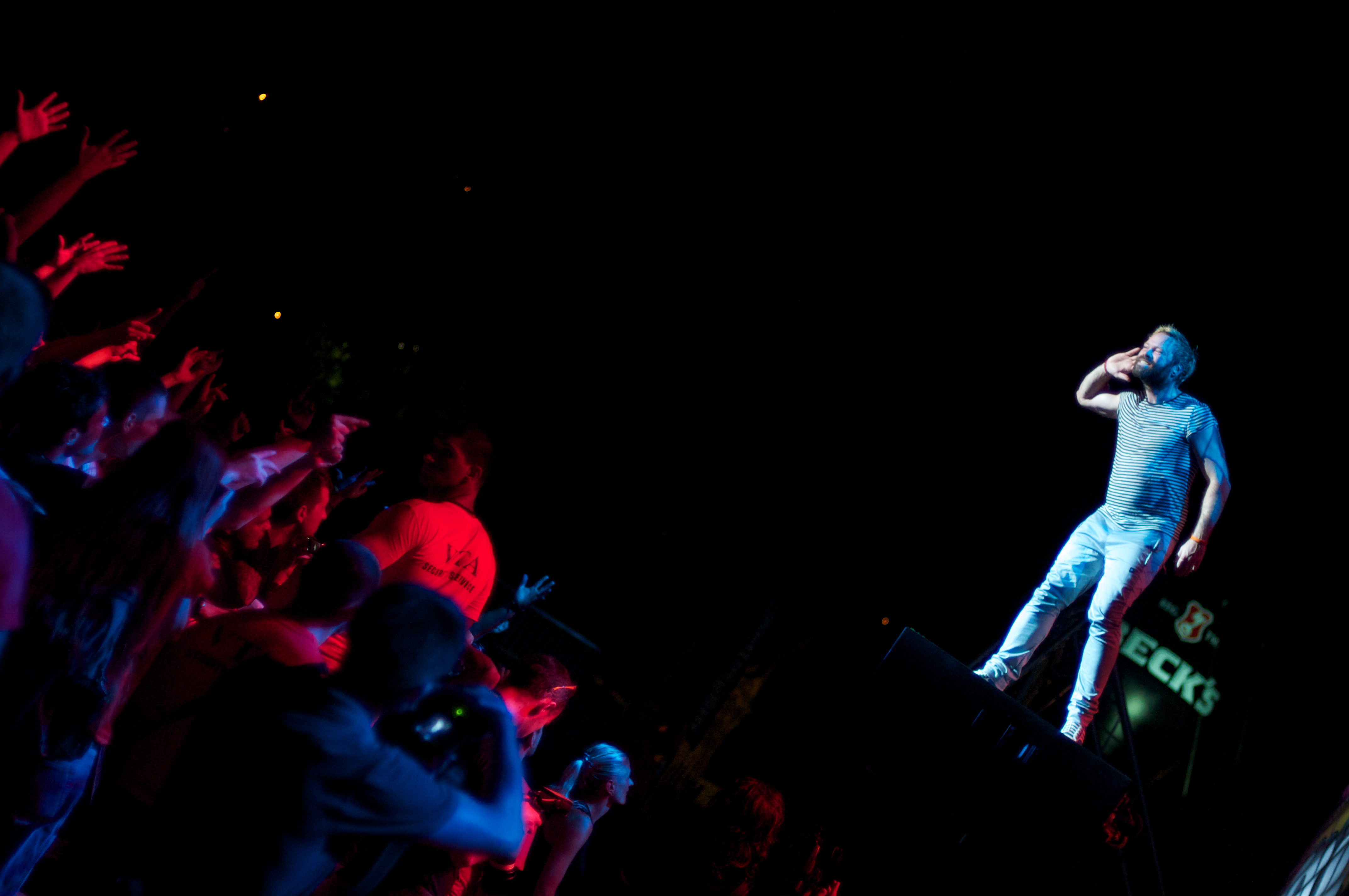 Ewan Macfarlane from Apollo 440, Spirit of Burgas 2010